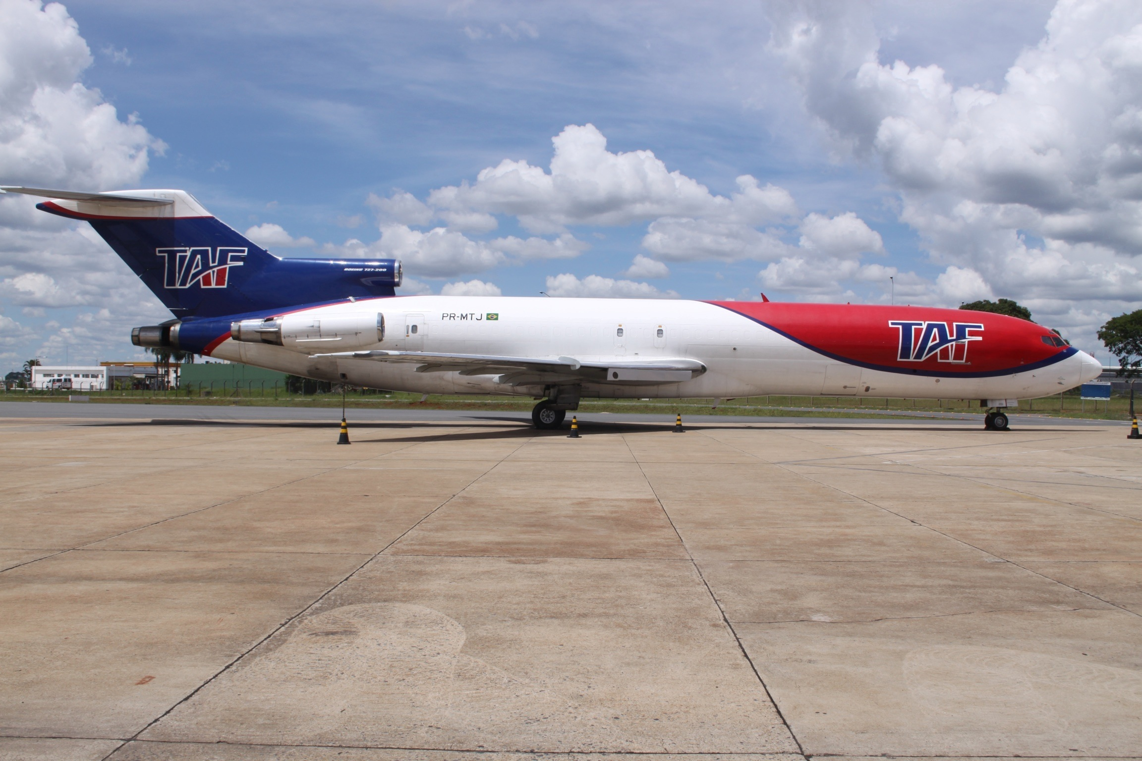 At Brasilia